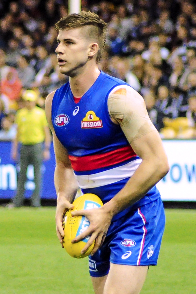 Billy Gowers during the AFL round six match between the Western Bulldogs and Carlton on Friday, 27 April 2018 at Etihad Stadium in Melbourne, Victoria.